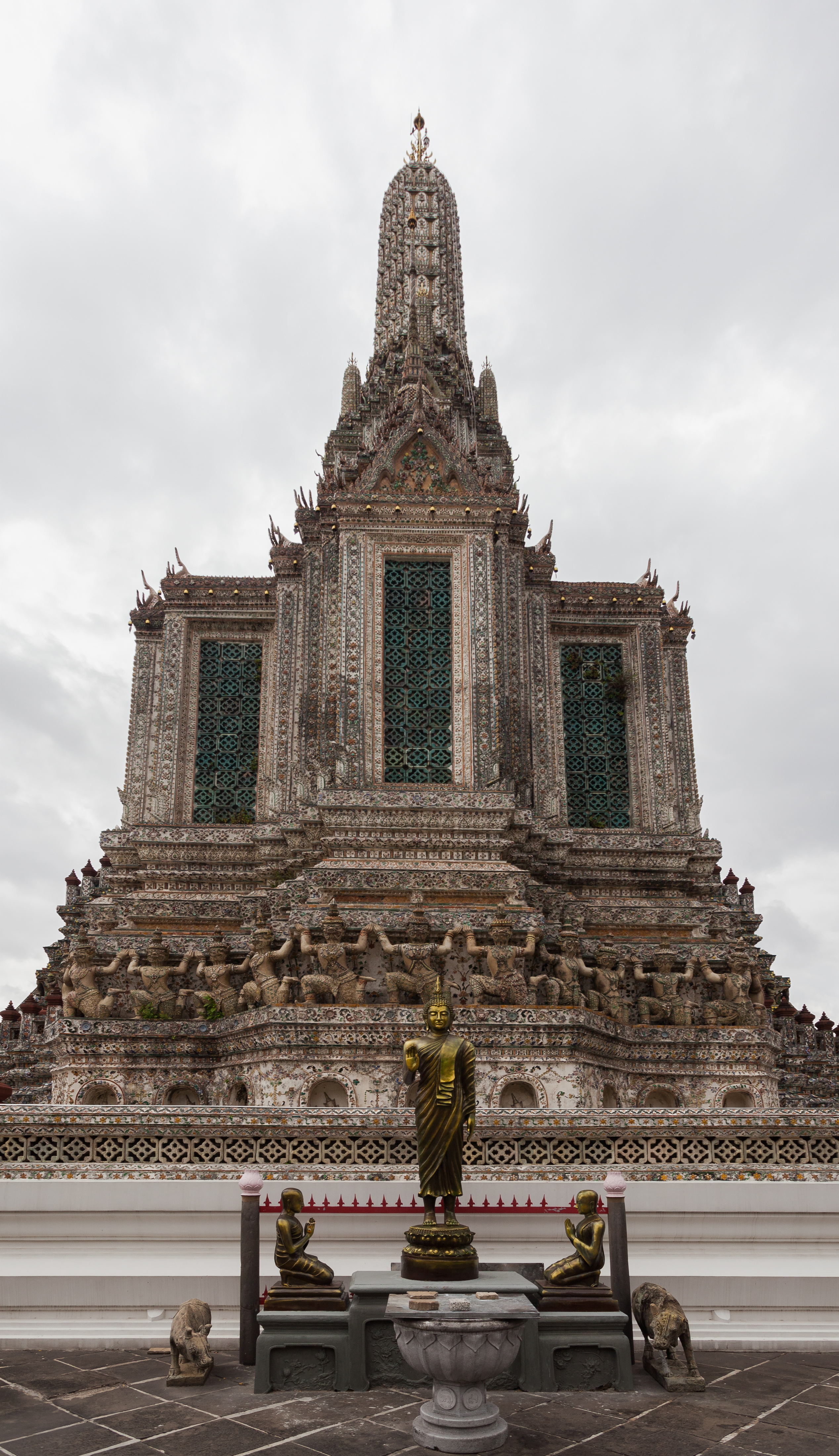 Wat Arun Temple, Bangkok, Thailand